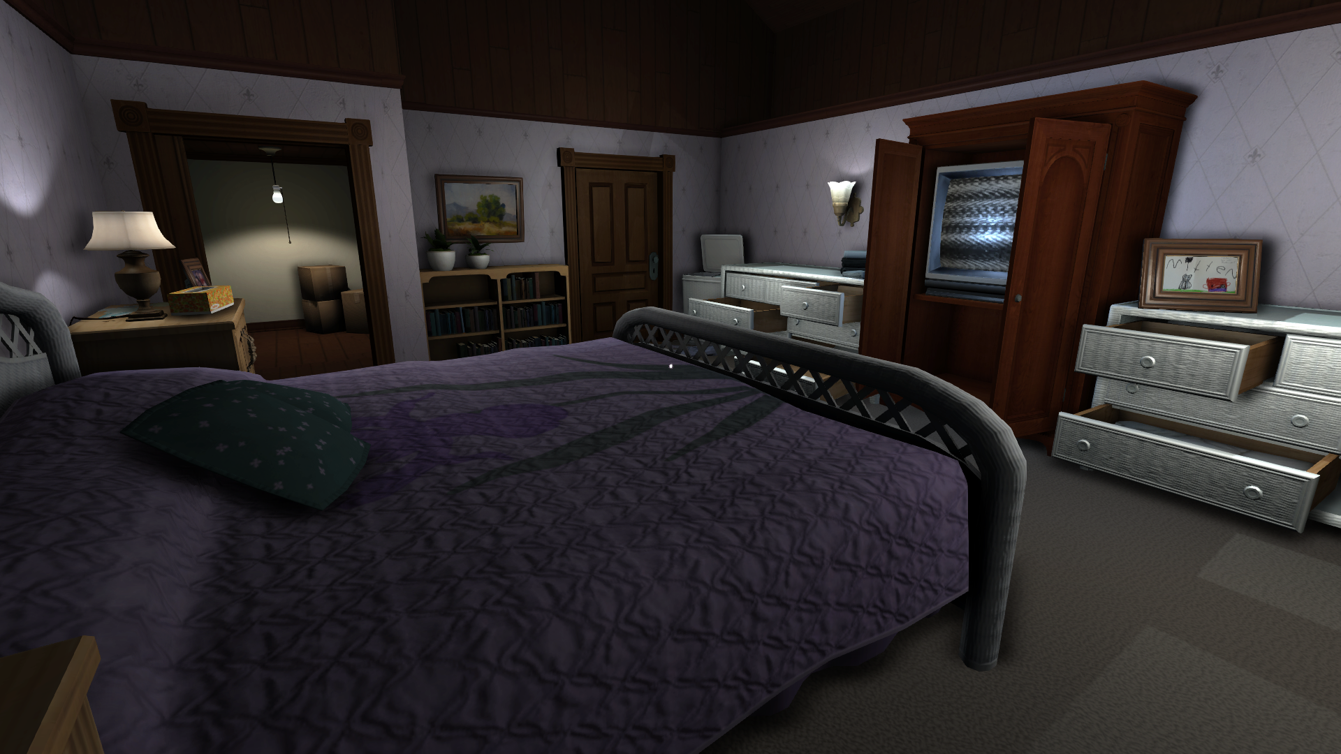 Gone Home gameplay screenshot, the player explores a bedroom from a first-person perspective. Released in August 2013 by The Fullbright Company.